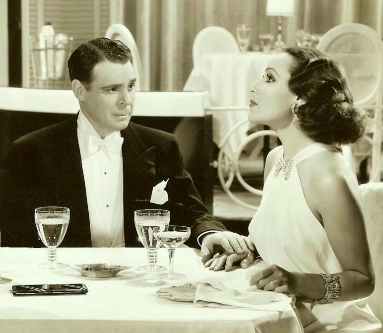 Promotion photo: Dolores del Rio with Everett Marshall in I Live for Love, 1935. Dolores del Rio wears an Orry-Kelly gown.